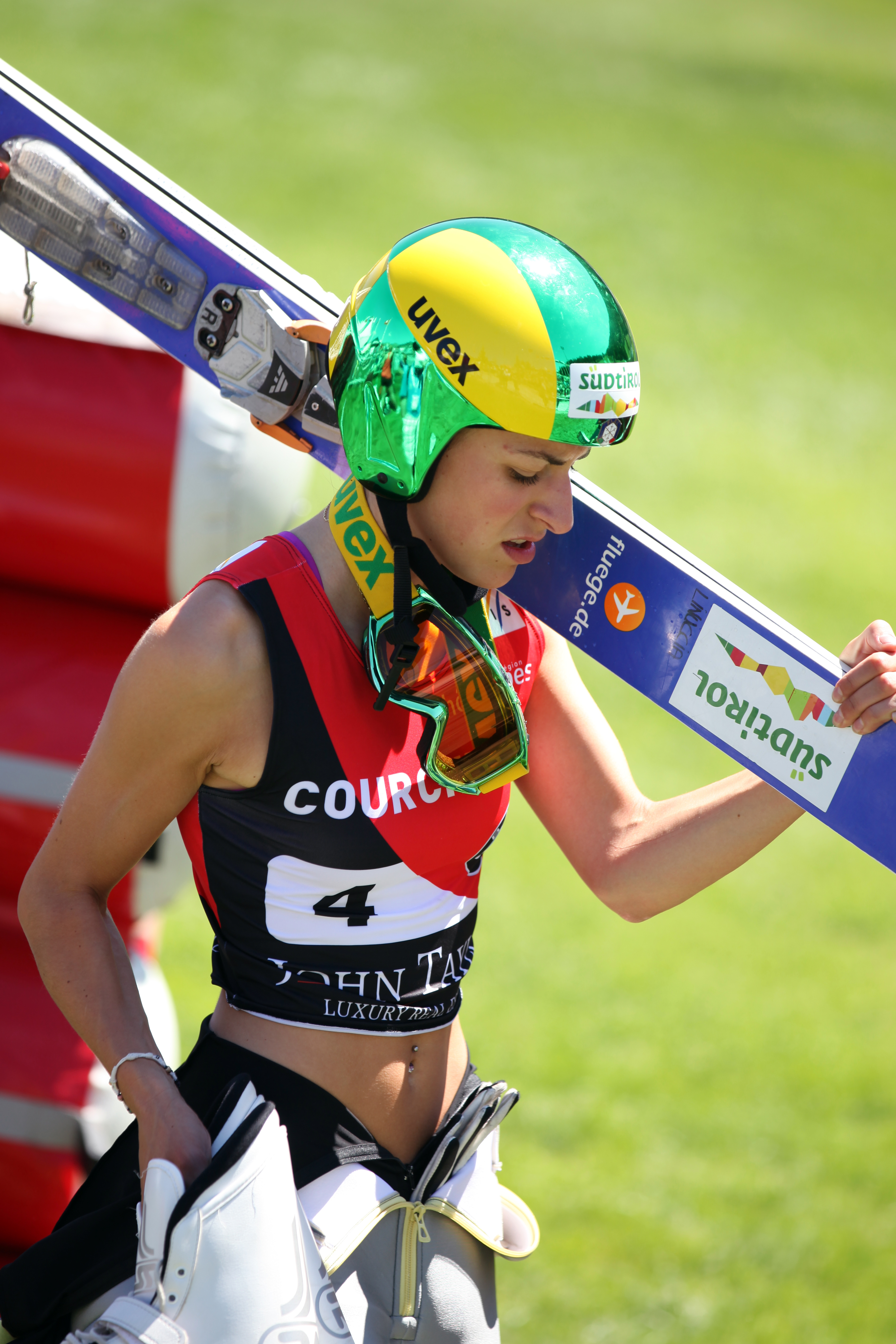 Evelyn Insam at the Summer Grand Prix ski jumping event in Courchevel